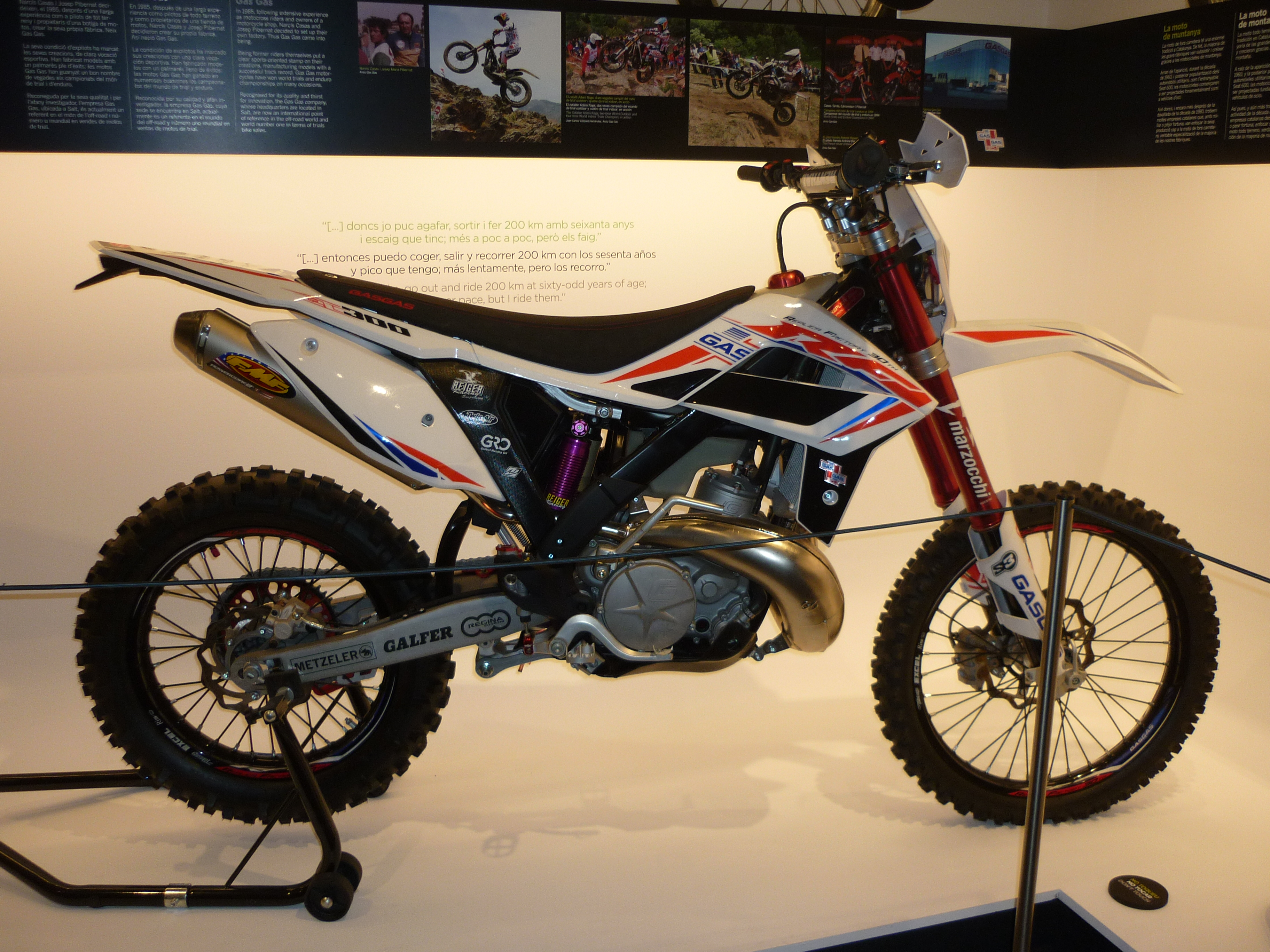 Gas Gas EC 300 30th Anniversary (299,3 cc), 2015